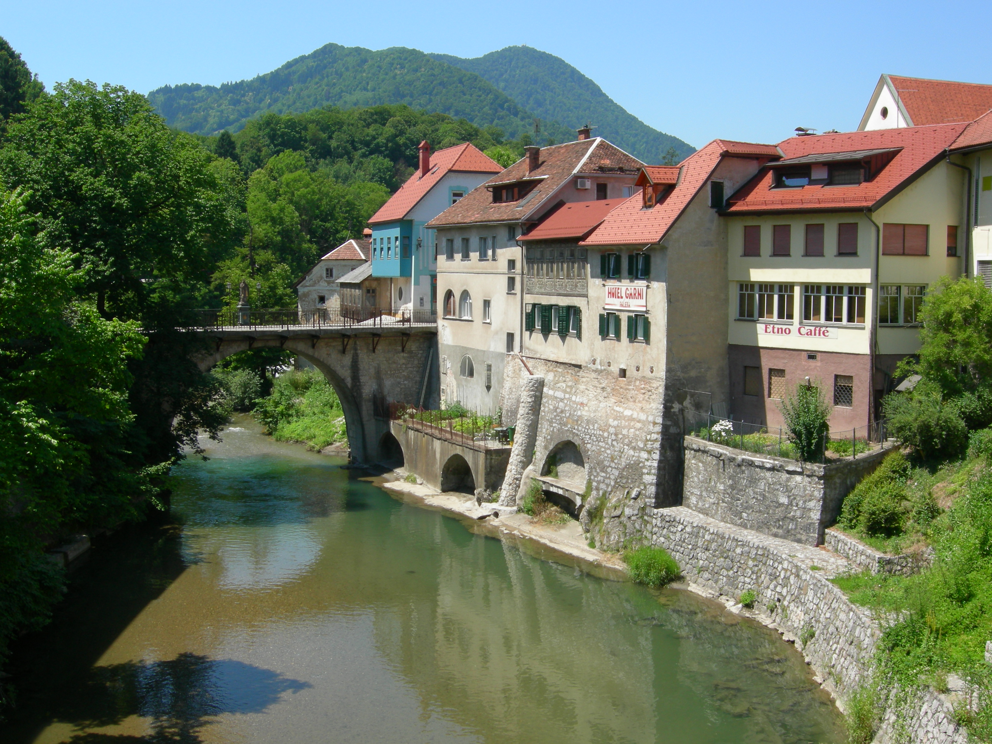 Capuchin bridge across the Sora river in Škofja Loka, Gorenjska, Slovenia